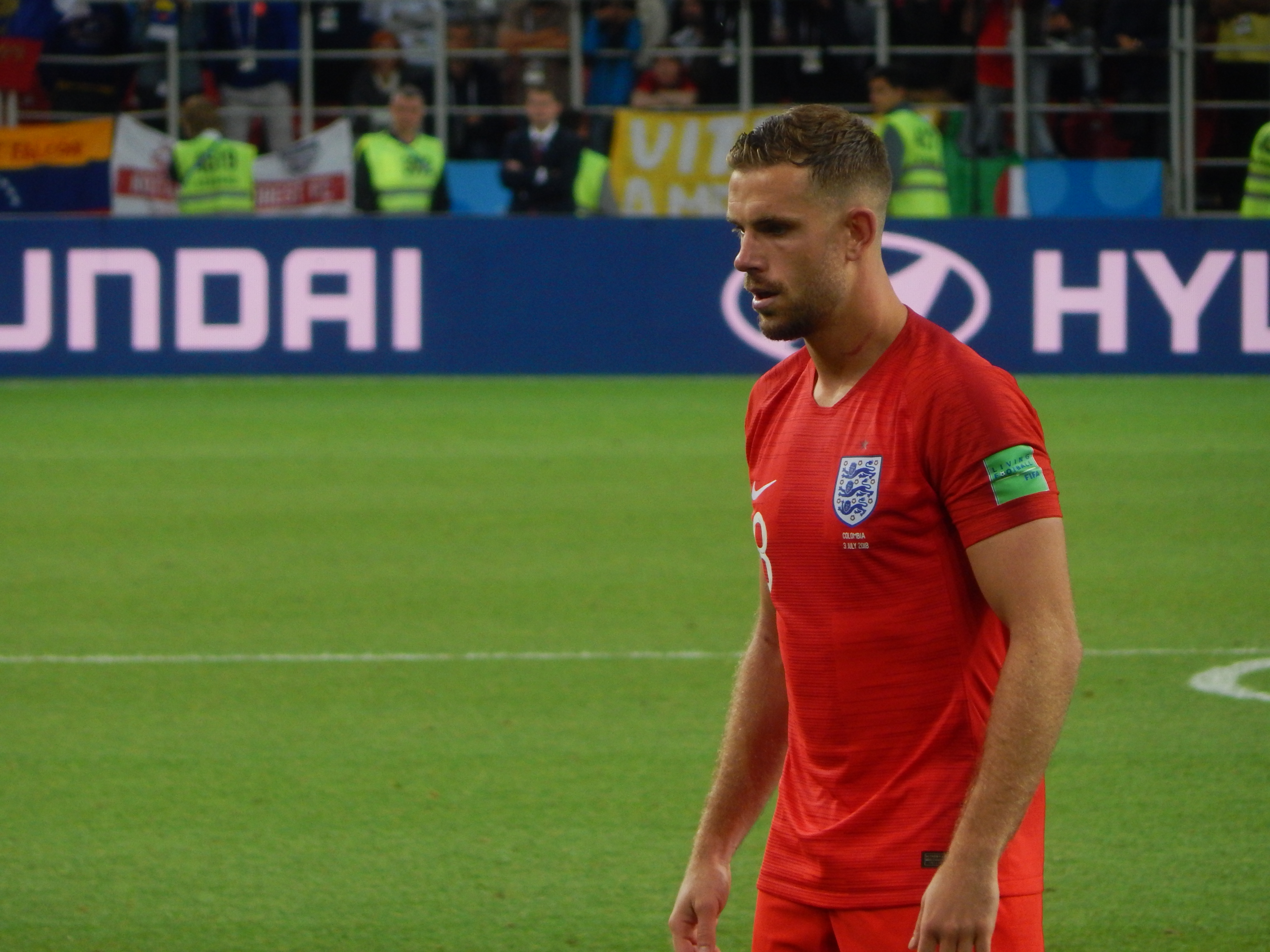 FIFA World Cup 2018, Round of 16, Colombia vs. England. Jordan Henderson before his penalty kick during the shoot-out